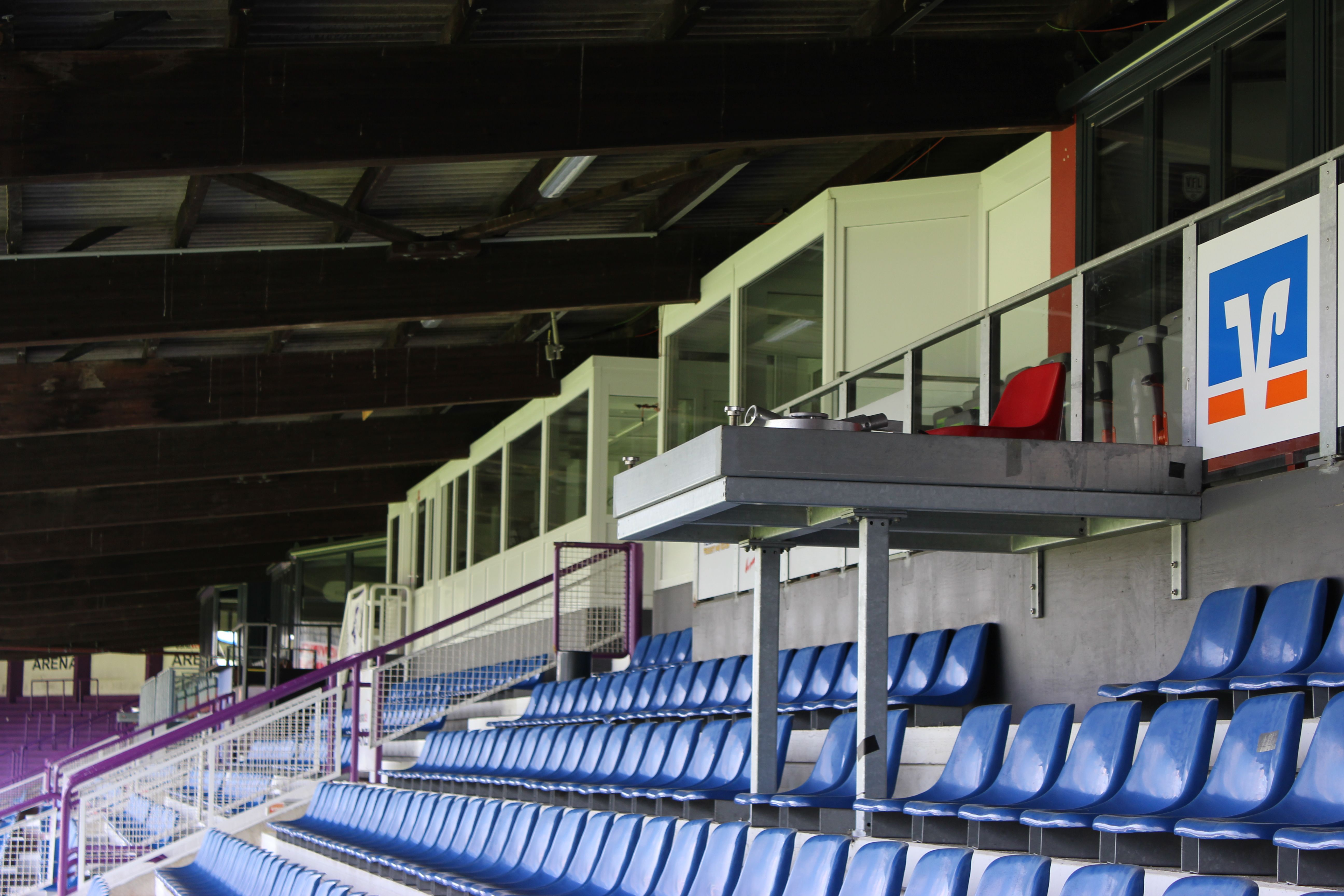 Osnabrück: osnatel Arena